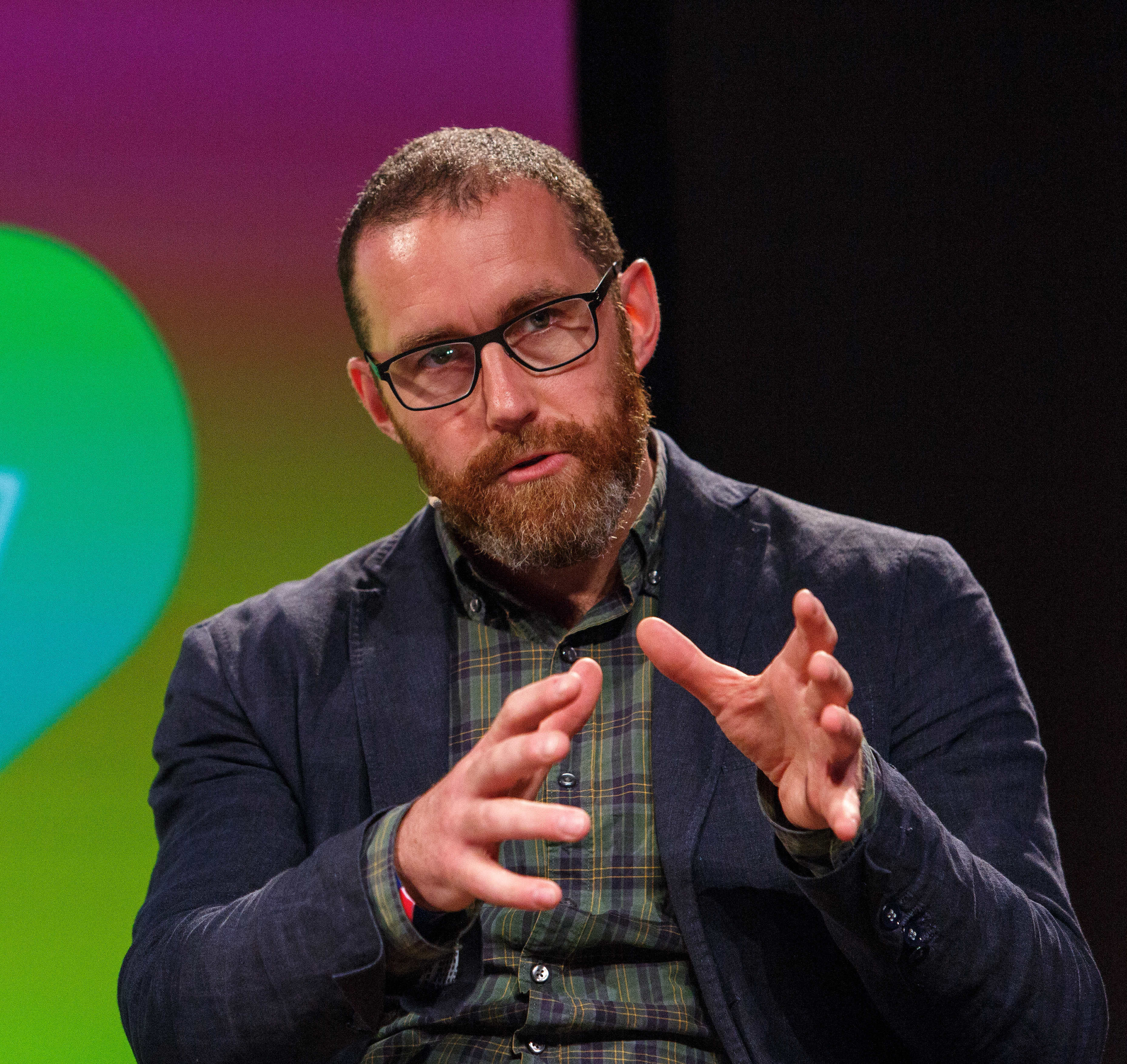 Max Hoppenstedt, Thomas Rid und Joseph Cox am 08.05.2017 mit "How to report a hack without becoming a puppet" auf der re:publica (#rp17) in Berlin. Foto: re:publica/Jan Zappner